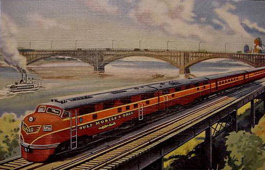 Postcard depiction of a Gulf, Mobile and Ohio Railroad streamlined diesel-powered train which traveled between Chicago and St. Louis.